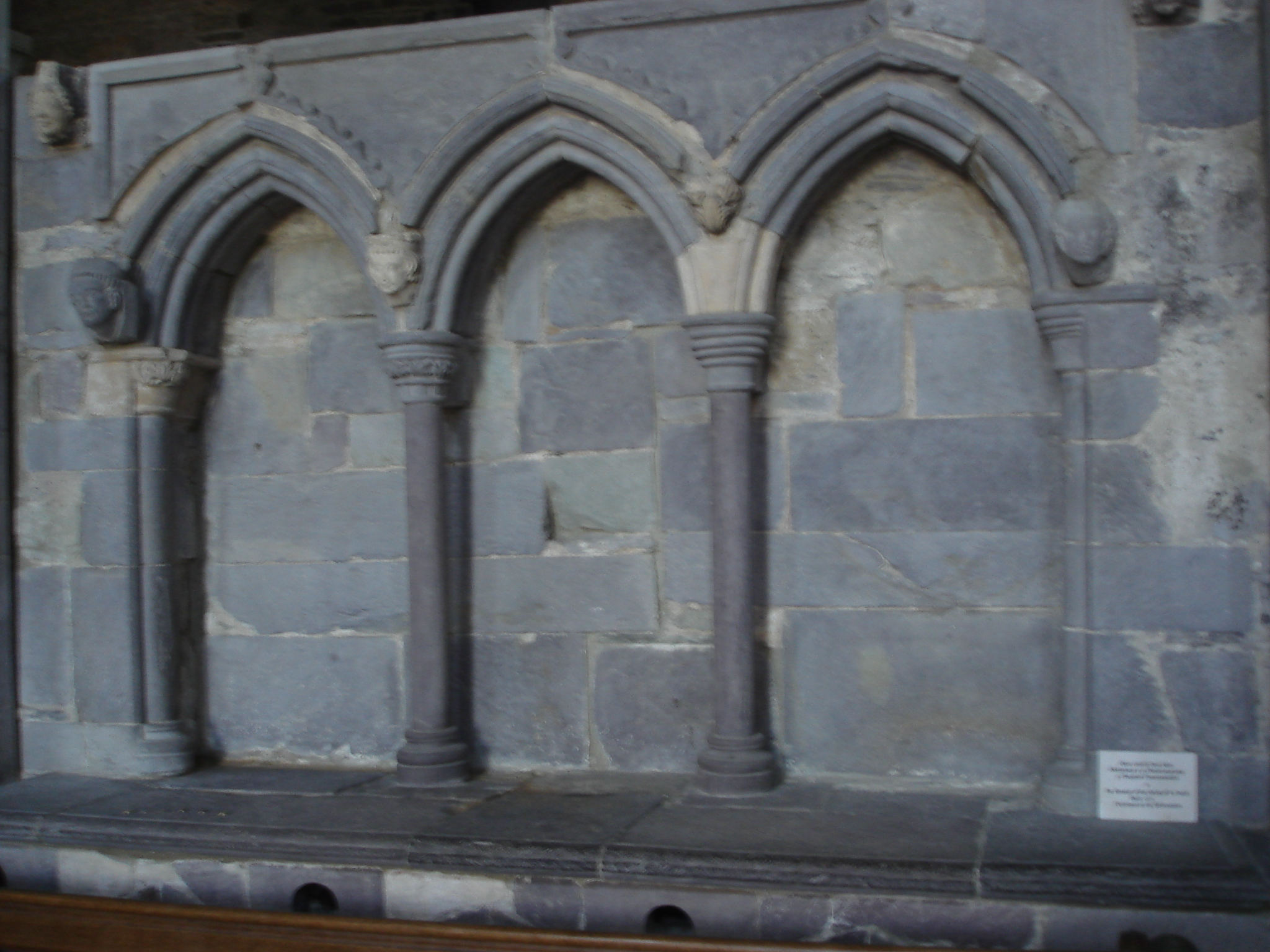 Shrine of St David in St David's Cathedral, St Davids, Wales